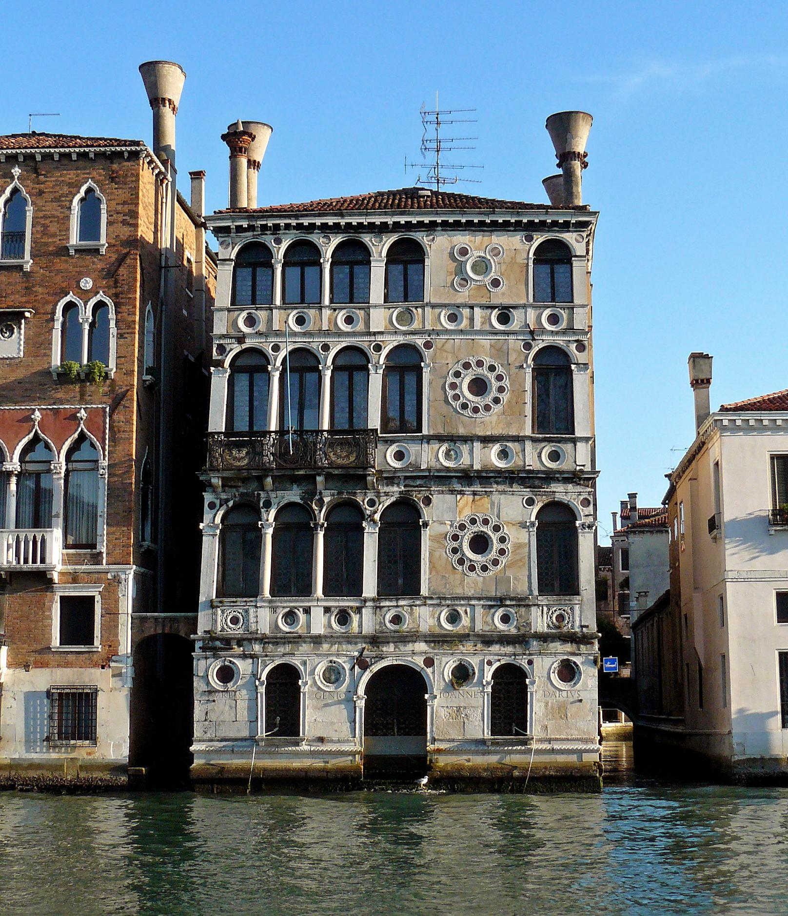 The Palazzo Dario (Ca' Dario) on the Grand Canal in Venice